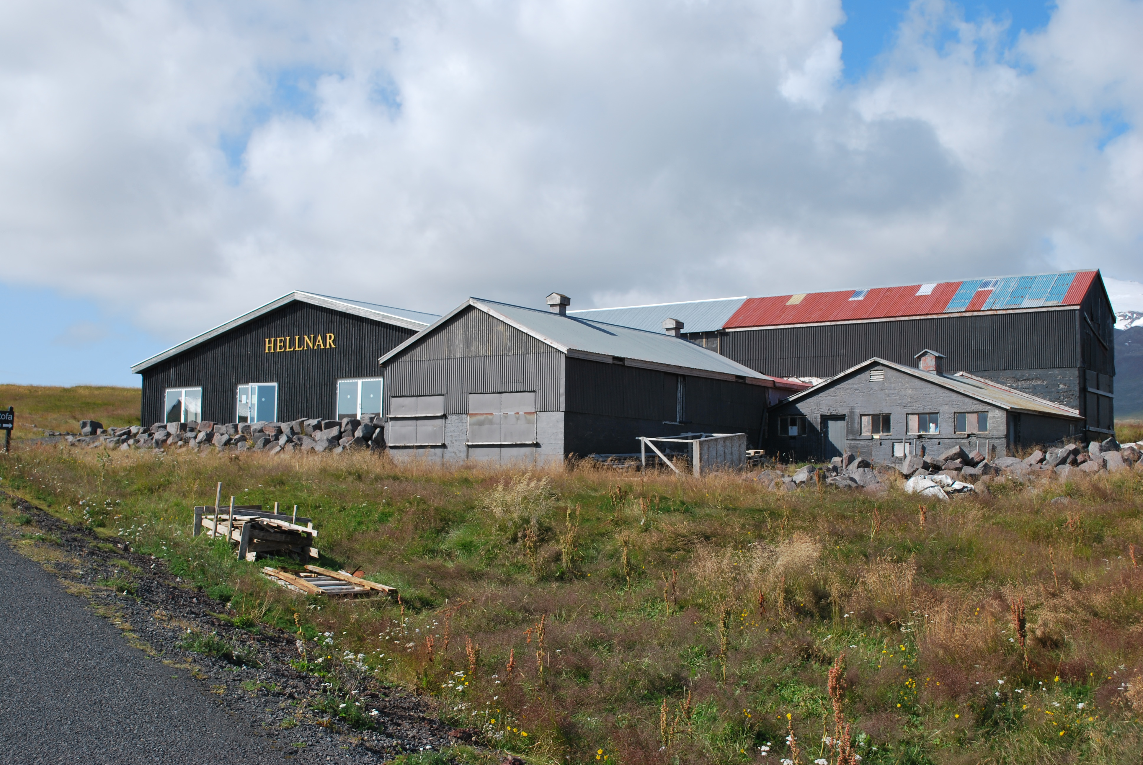 Local museum about historical living in Hellnar village, Iceland